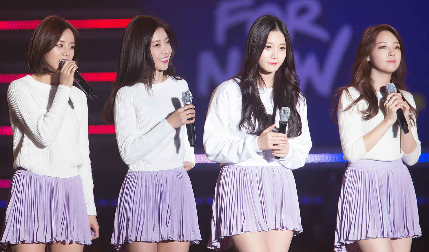 14.11.16 펩시콘서트 걸스데이